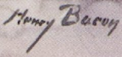 Signature of Henry A. Bacon from 1897